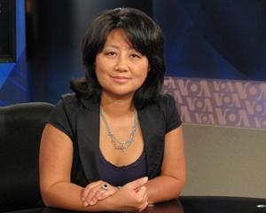 Chai Ling